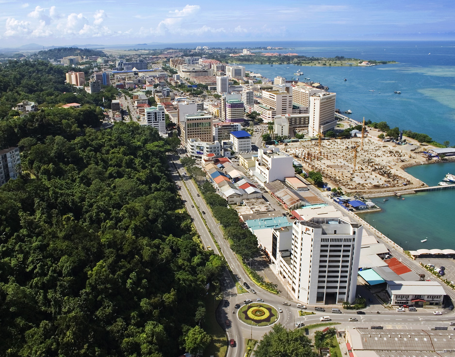 Photos taken from Aerial View, Photos of Kota Kinabalu Cities.